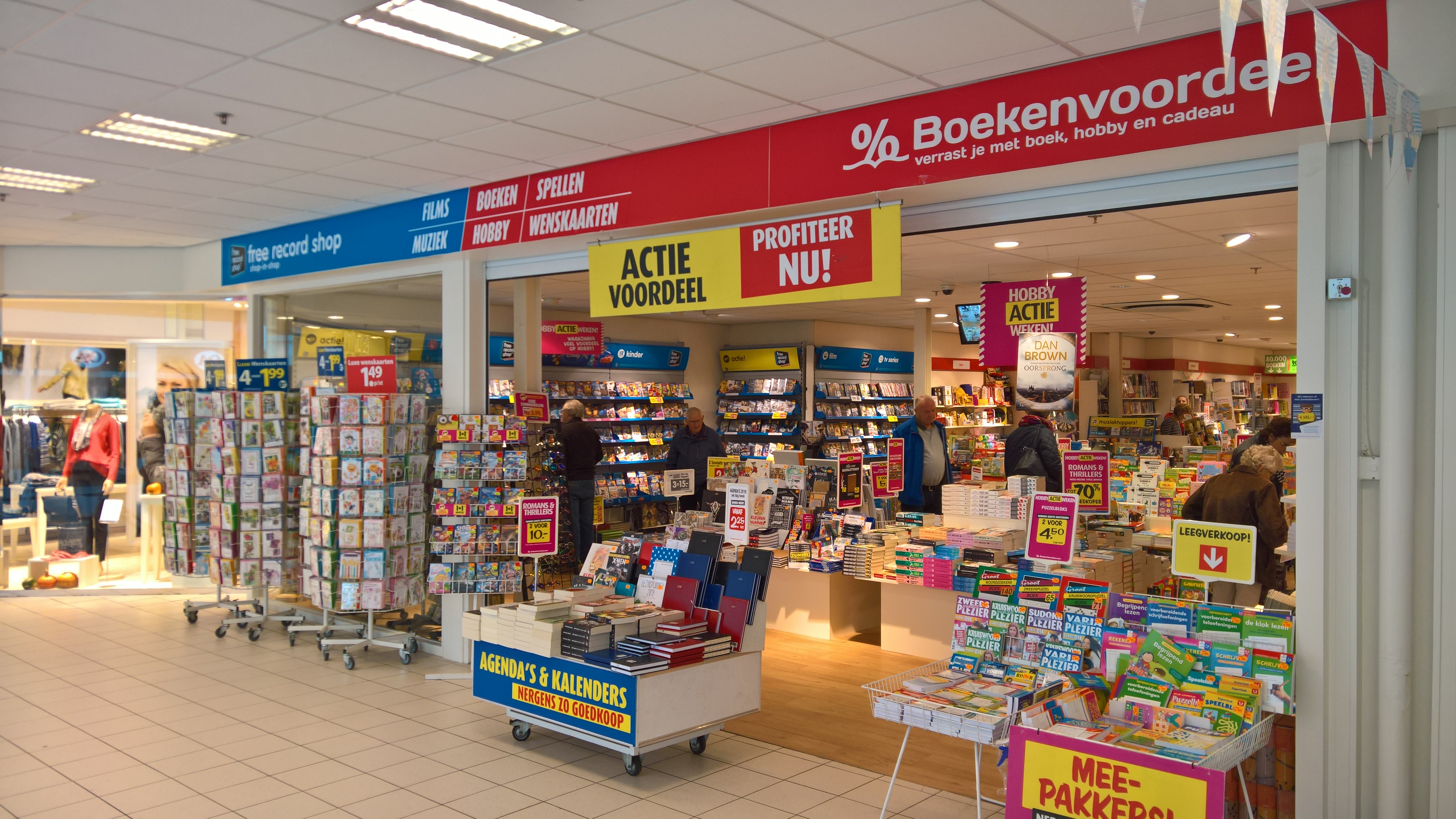 A Boekenvoordeel book 📚 store with a Free Record Shop shop-in-shop.